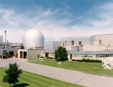 Experimental Breeder Reactor II and the Fuel Conditioning Facility